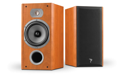 A couple of bass reflex loudspeakers, by the French manufacturer Focal-JMLab